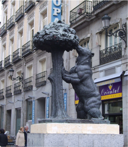 crest of Madrid as a benchmark from the Plaza de la Puerta del Sol